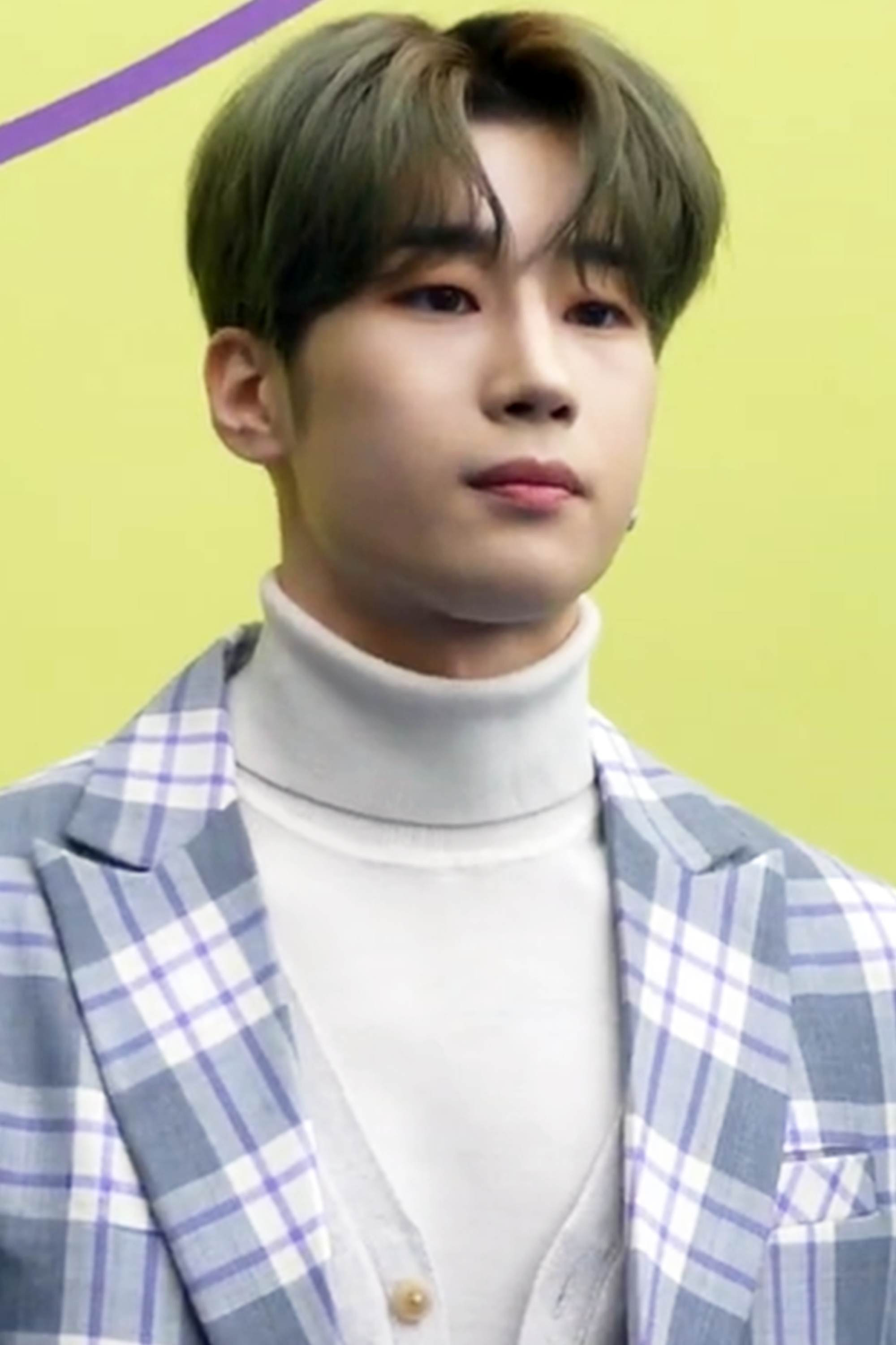 Han Seung-woo during the Seoul Fashion Week S/S 2020 on October 18, 2019.